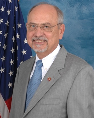 Doc Hastings, member of the United States House of Representatives.